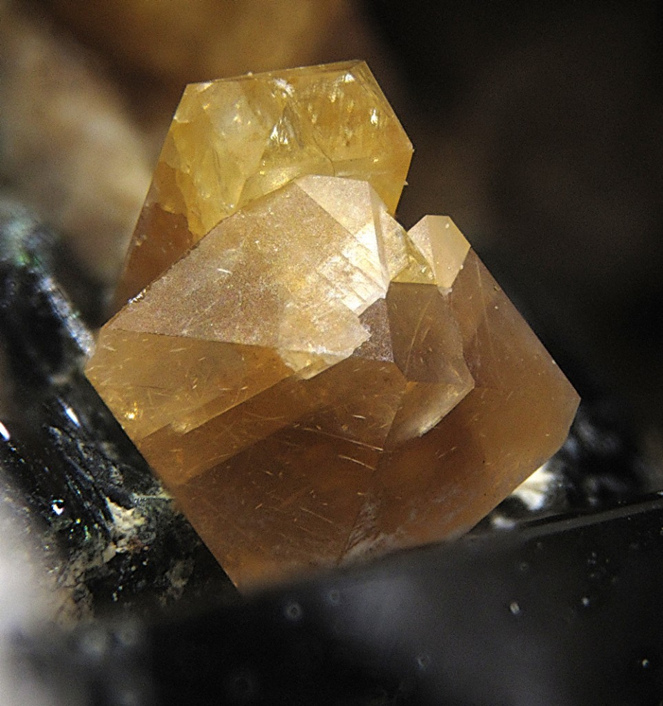 Xenotime-(Y) Locality: Mt Malosa, Zomba District, Malawi (Locality at ) Picture width 1 mm. Collection and photograph Christian Rewitzer Pale brown xenotime-Y with yellow zircon in the background.